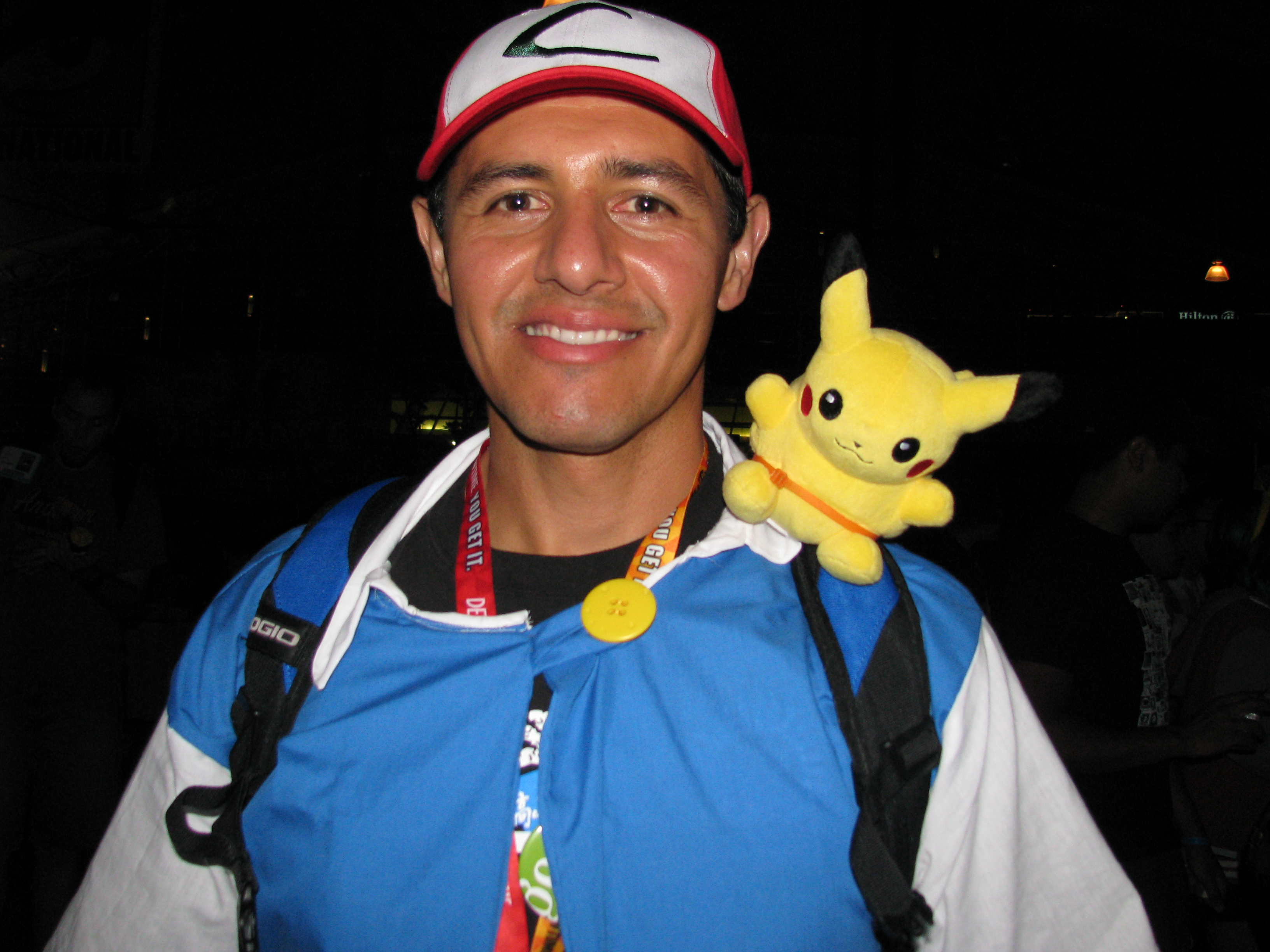 Ash from Pokemon cosplay Cosplay at San Diego Comic Con 2012.